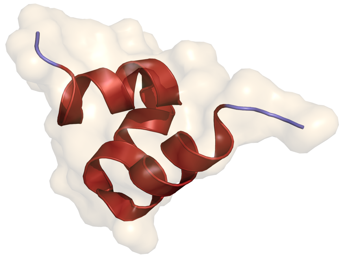 Crystal structure of porcine osteocalcin, data taken from PDB 1Q8H